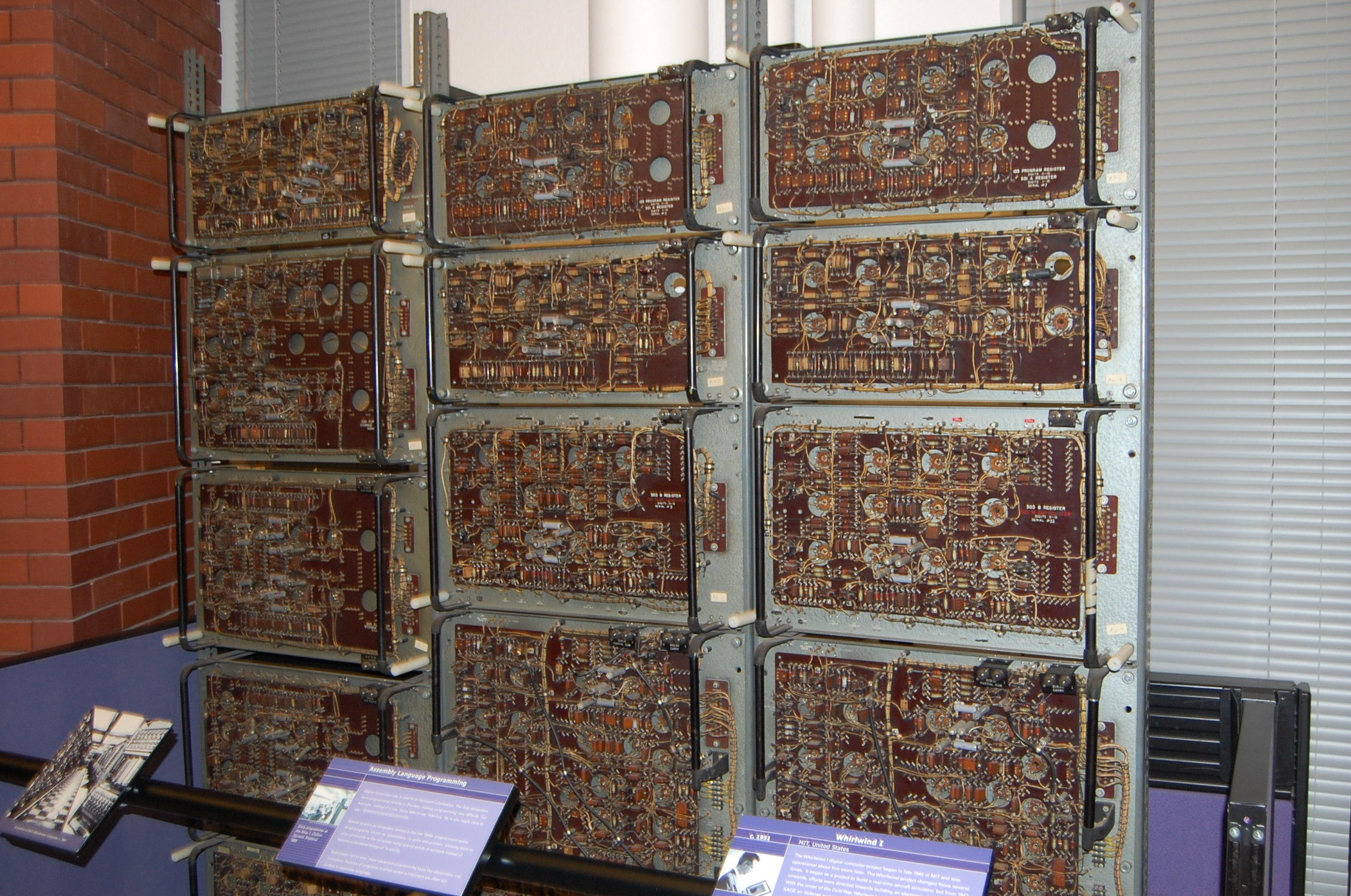 Whirlwind 1